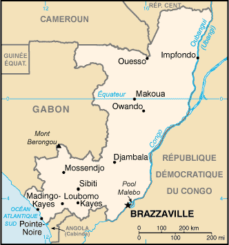 Map in French of the Republic of the Congo.